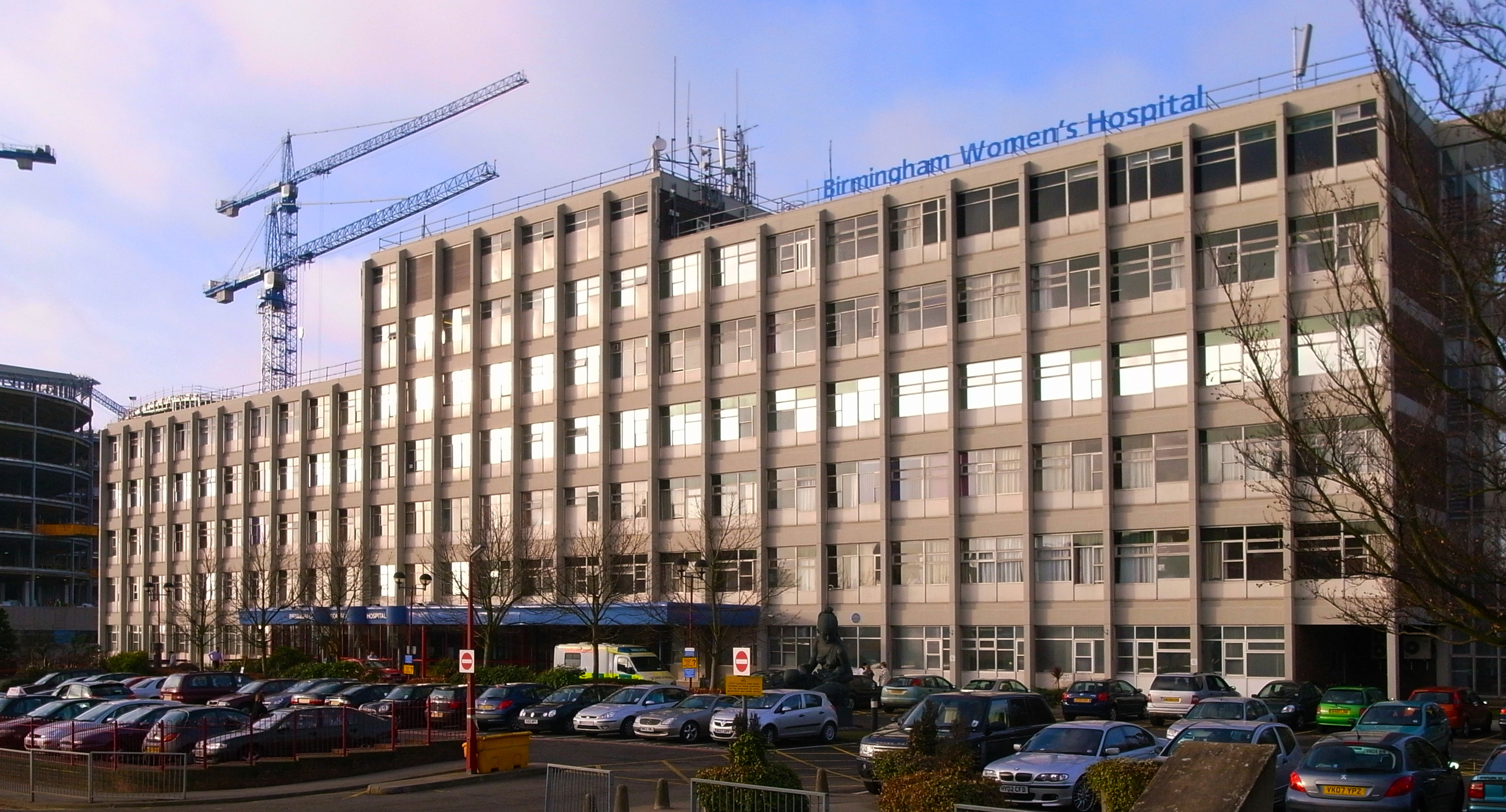 Birmingham Women's Hospital in Edgbaston, Birmingham, England.